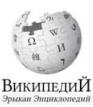 A logo for Wikipedia in the Eastern Mari language.